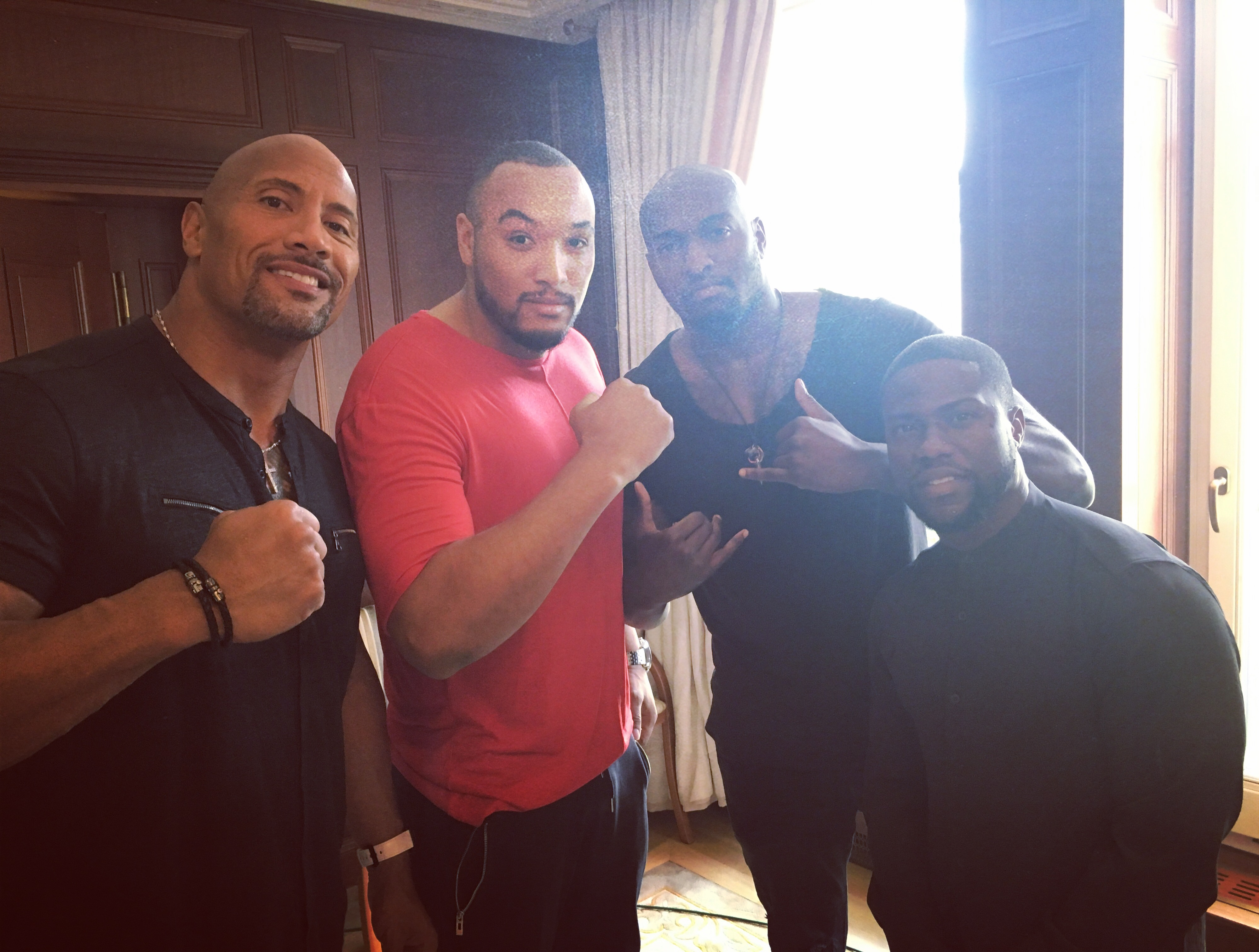 Berlin 2ß16